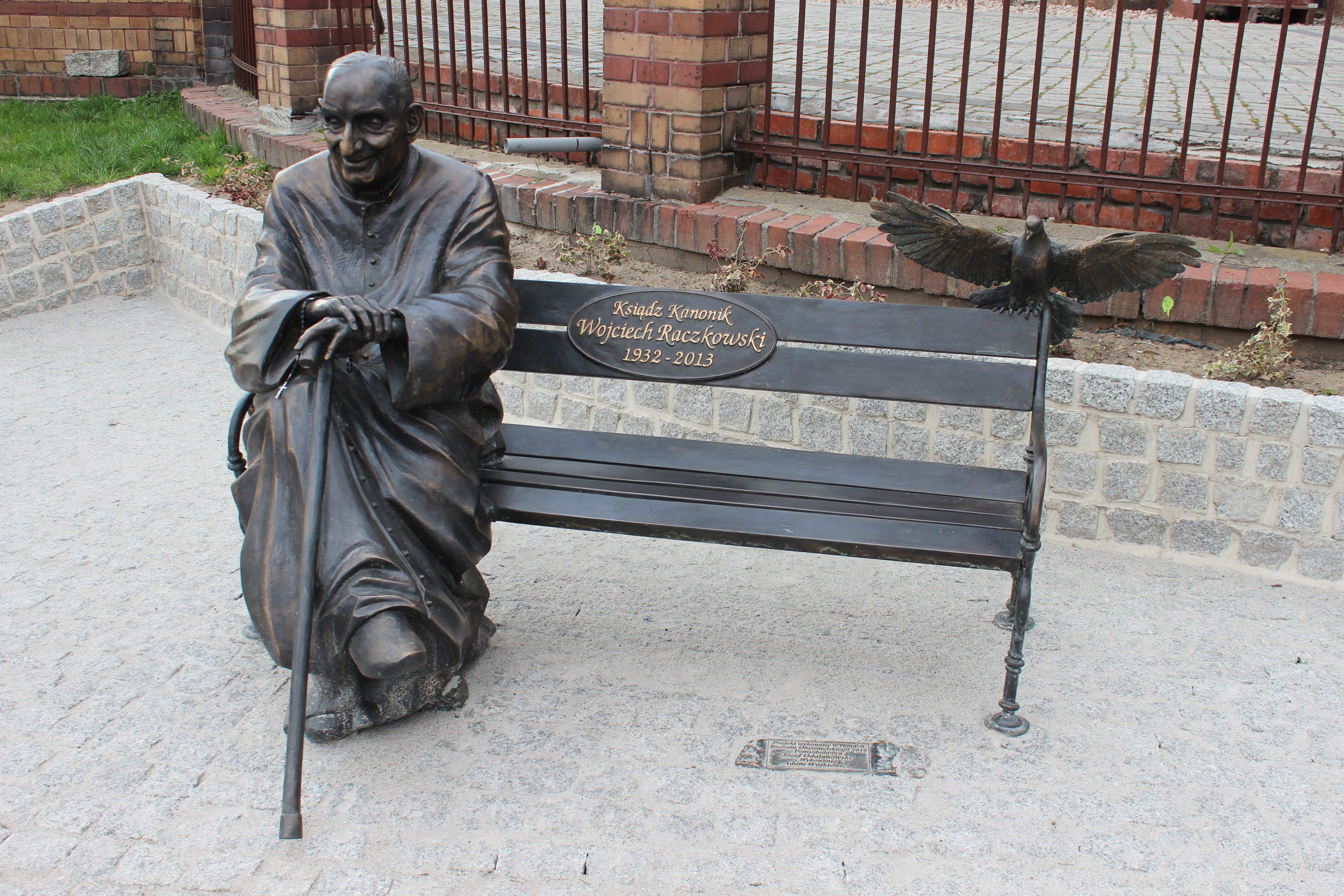 Wojciech Raczkowski Monument in Środa Wielkopolska